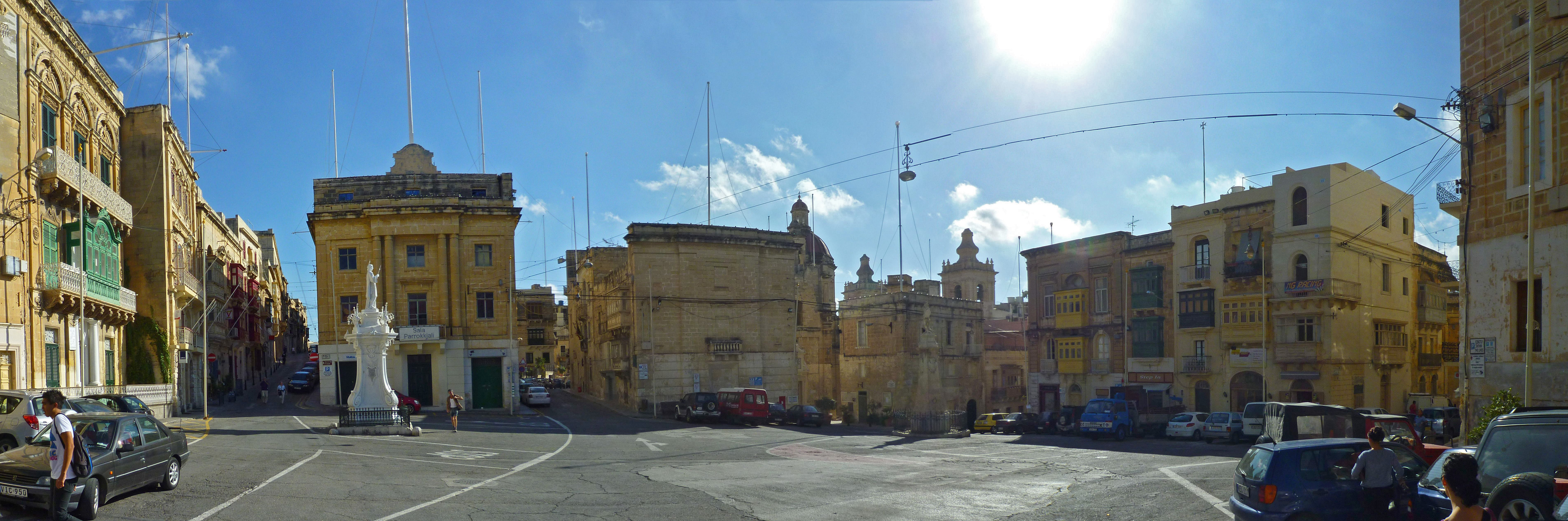 Misraħ ir-Rebħa (Victory Square), the main square of Il-Birgu (Citta Vittoriosa)